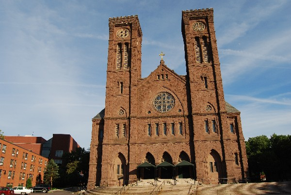 Cathedral of Saints Peter and Paul, Providence, Rhode Island